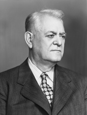 former Senator Garrett Withers of Kentucky.